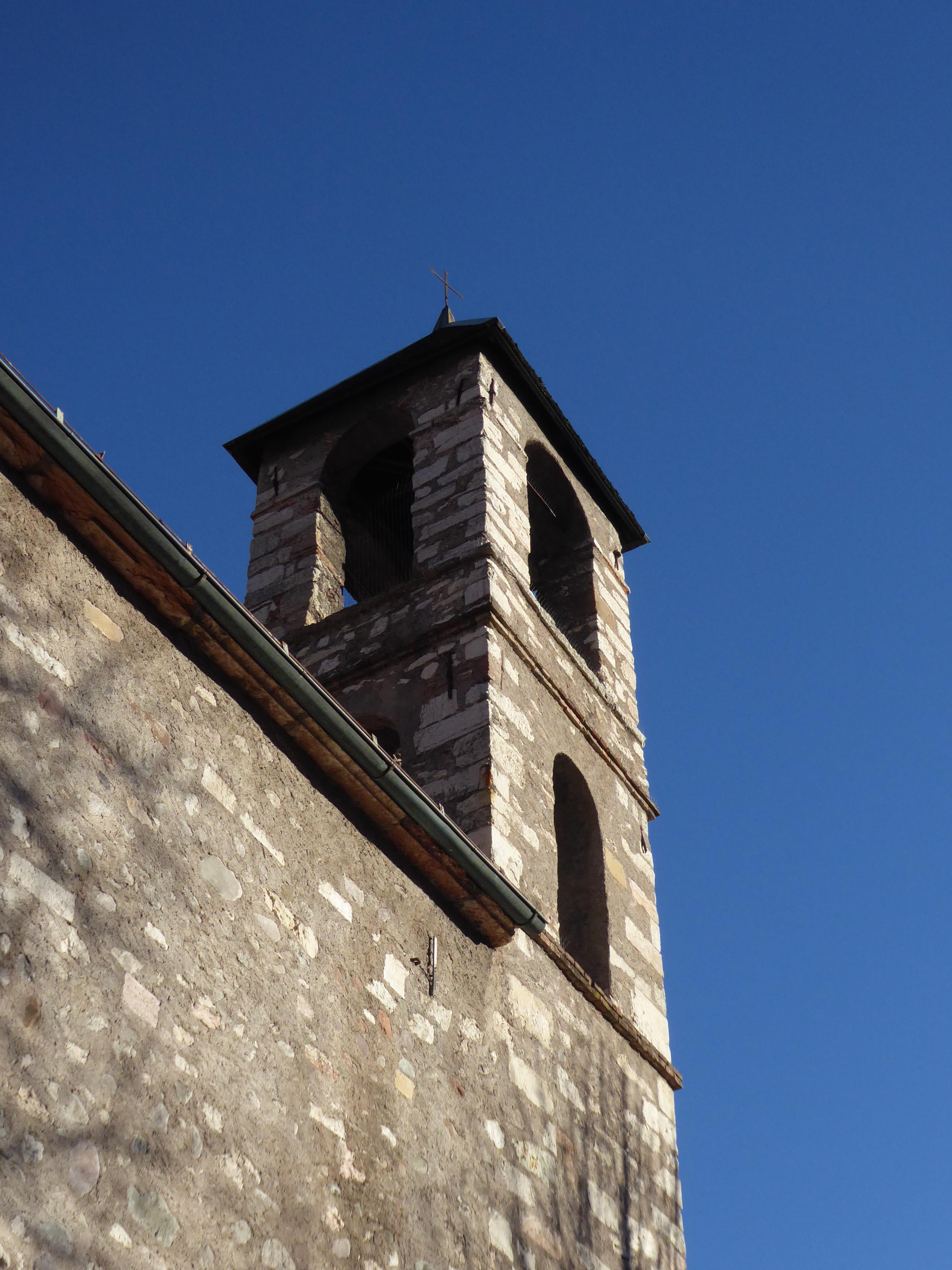 Trento (Italy) - The former Holy Cross church